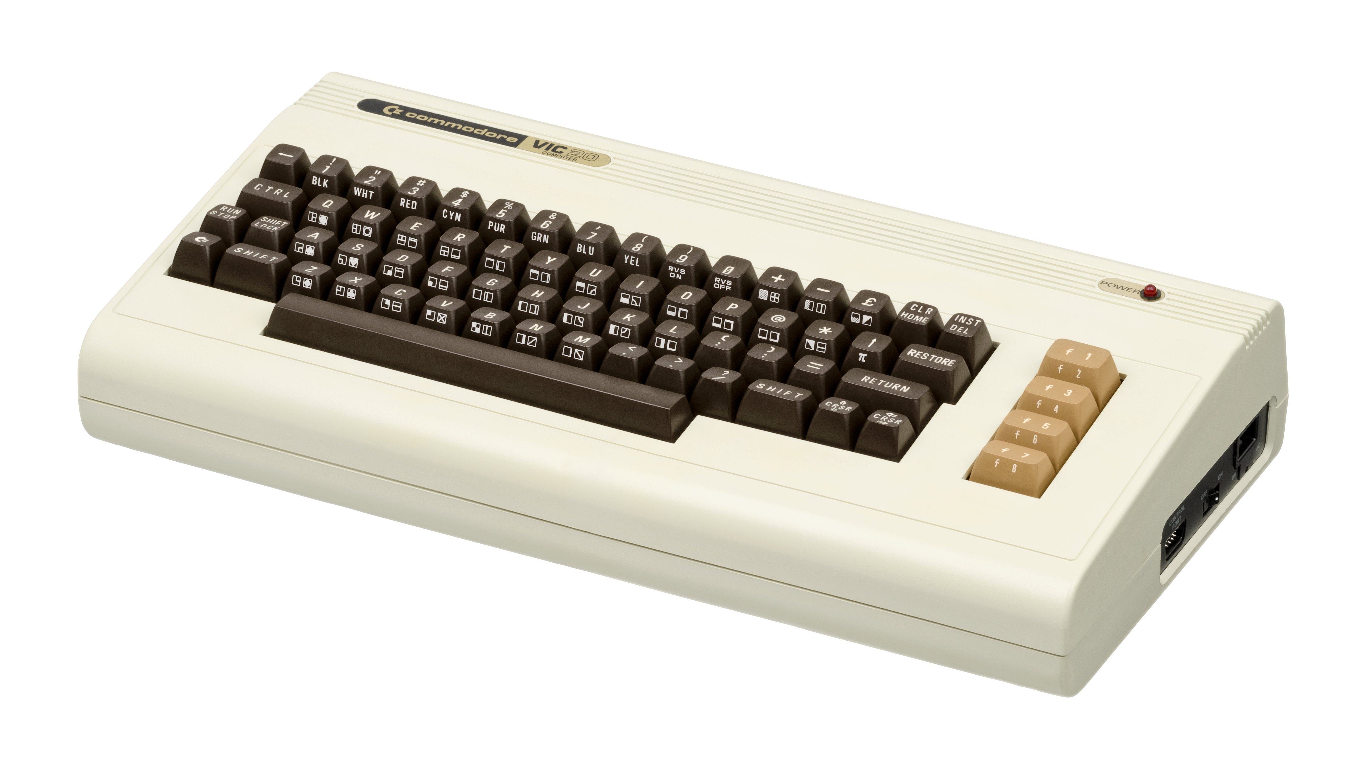 The Commodore VIC-20, an 8-bit computer released in 1981. A popular and inexpensive computer, it is the precursor to the immensely successful Commodore 64, which shares the same aesthetic as the VIC-20.